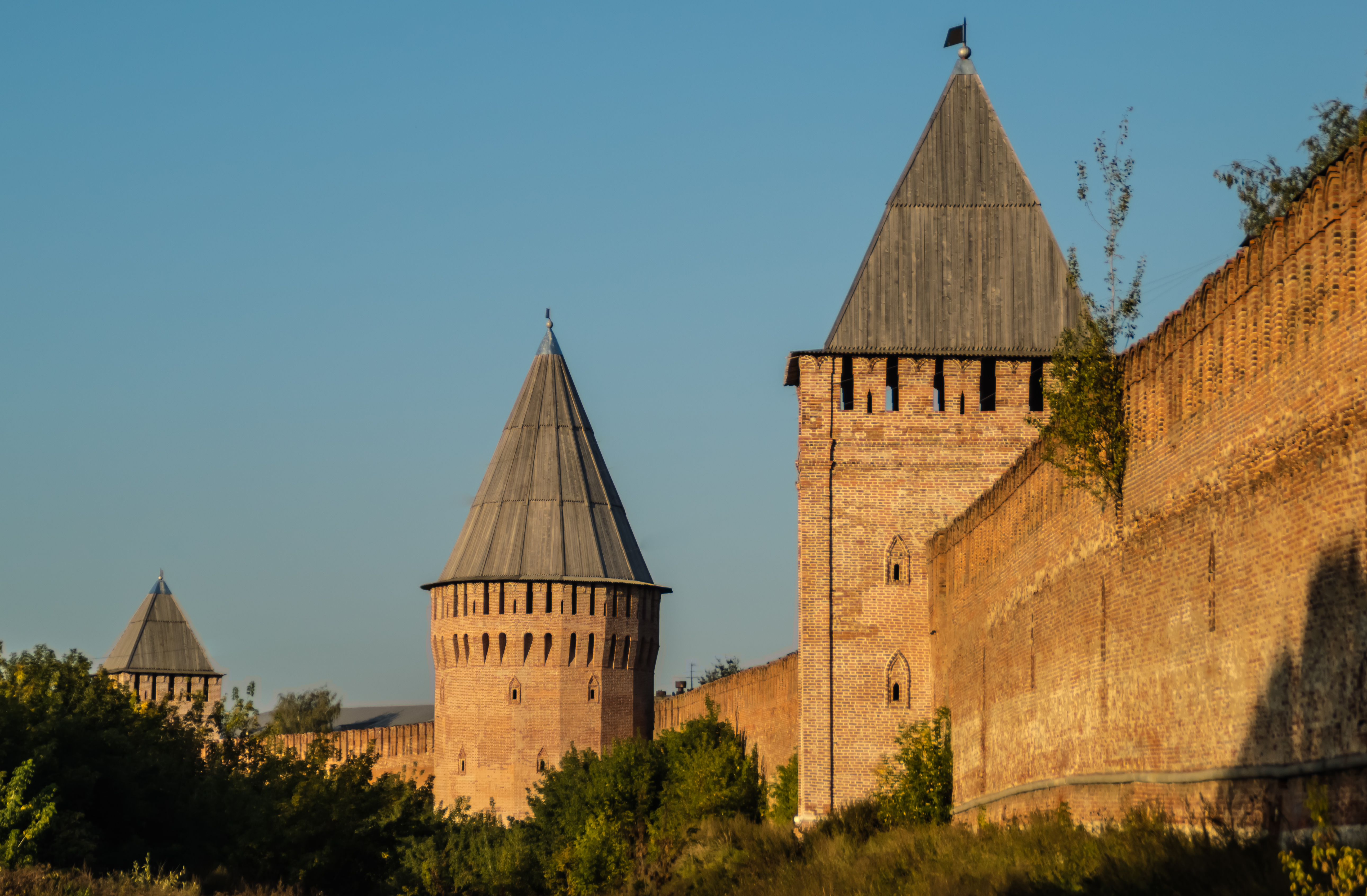 Smolensk Kremlin — walls and towers.